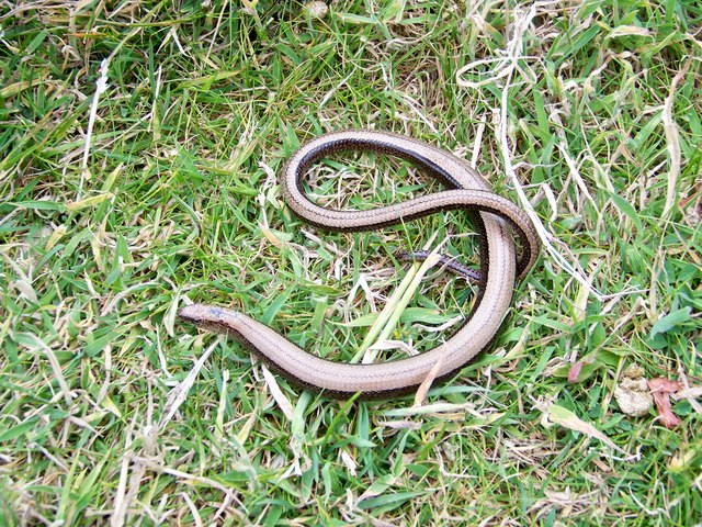 Slow Worm This legless lizard can be found on Ailsa Craig.